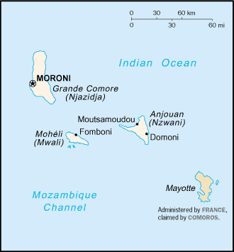 A map of Comoros, showing major cities.